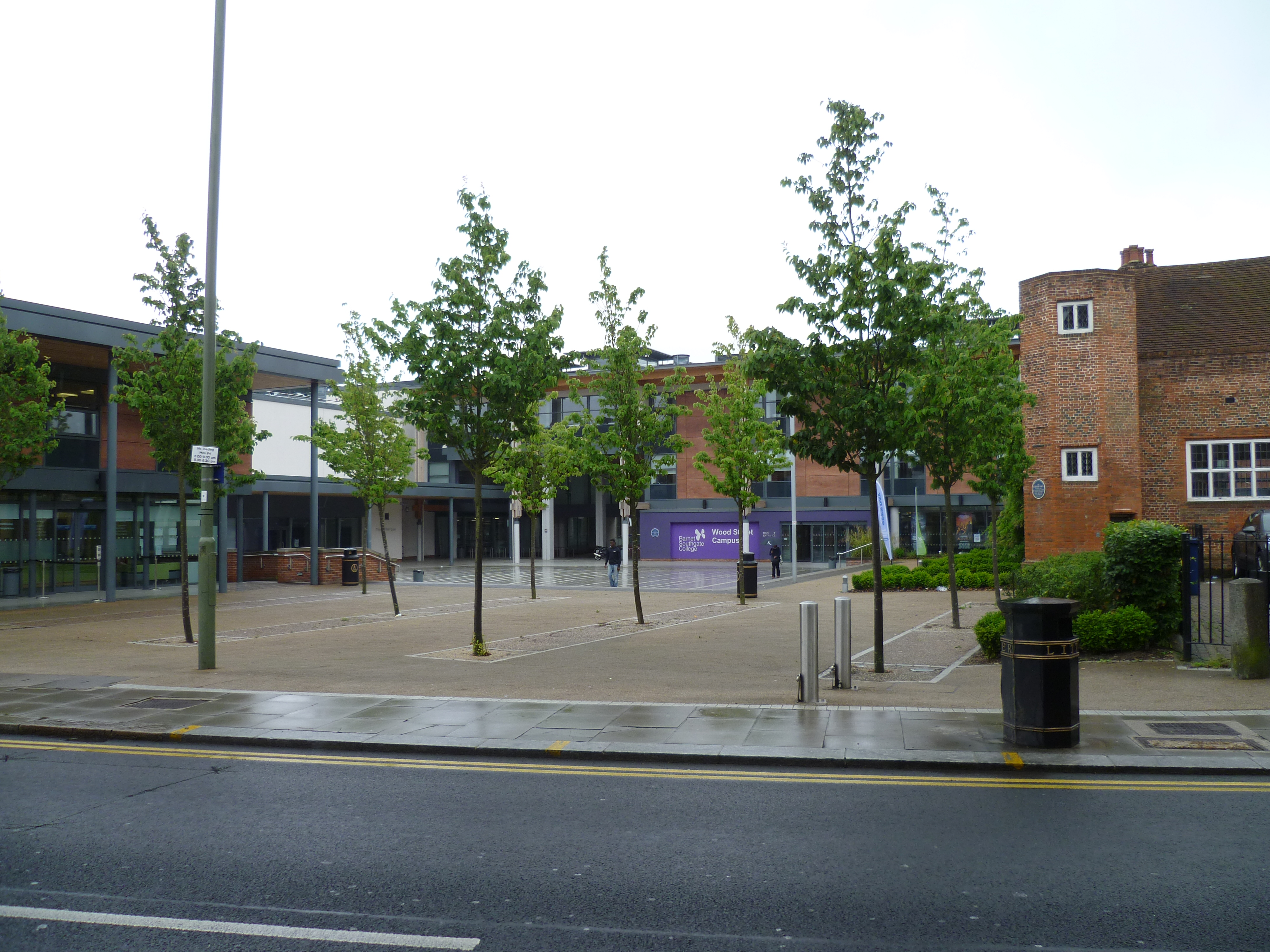 Barnet & Southgate College Wood Street Campus